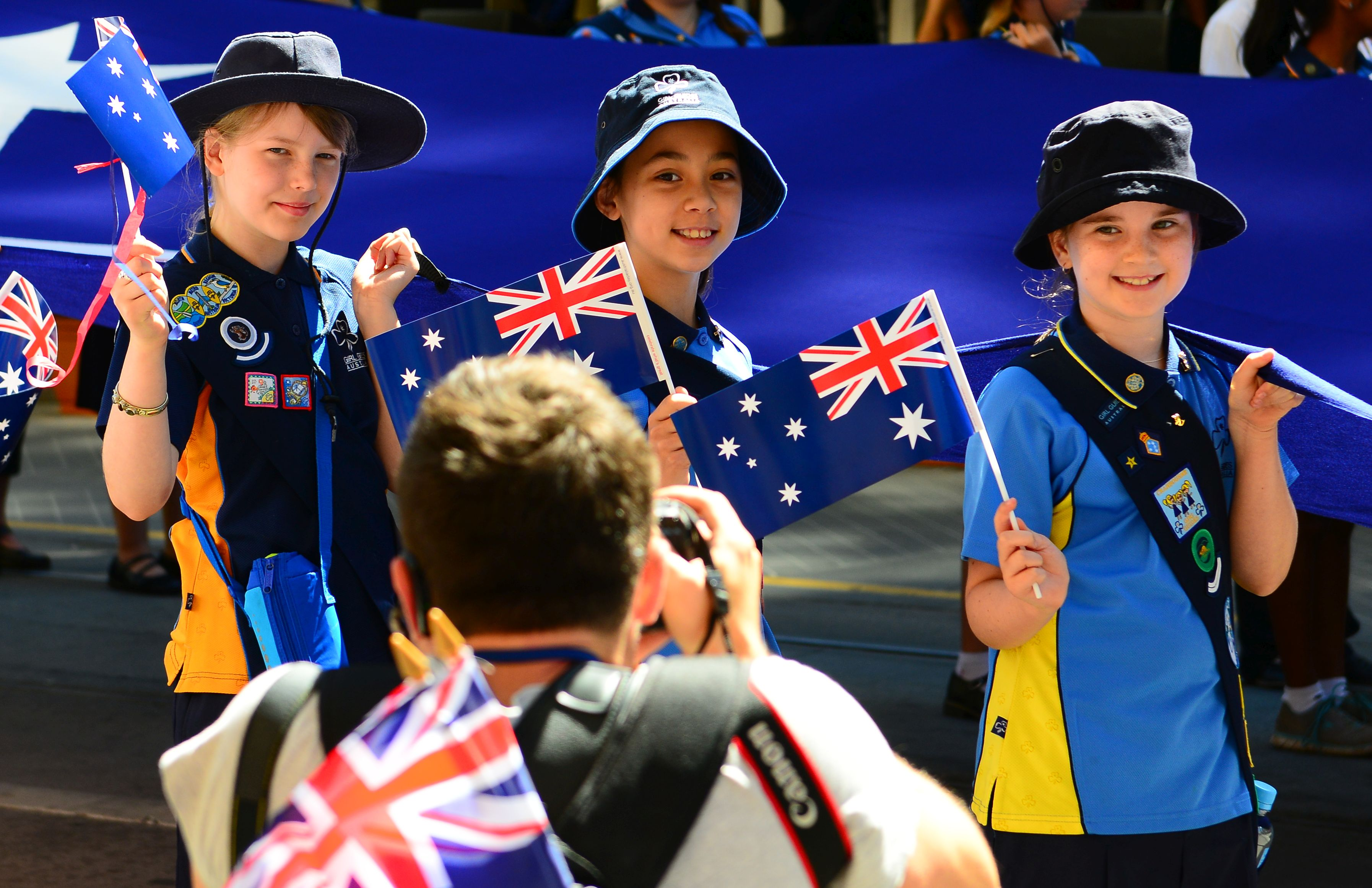 Australia Day 2014